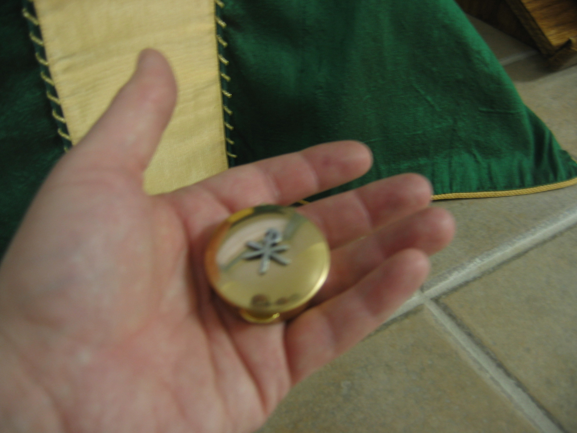 This is a brass pyx. It is used to carry consecrated wafers to people who cannot attend mass.